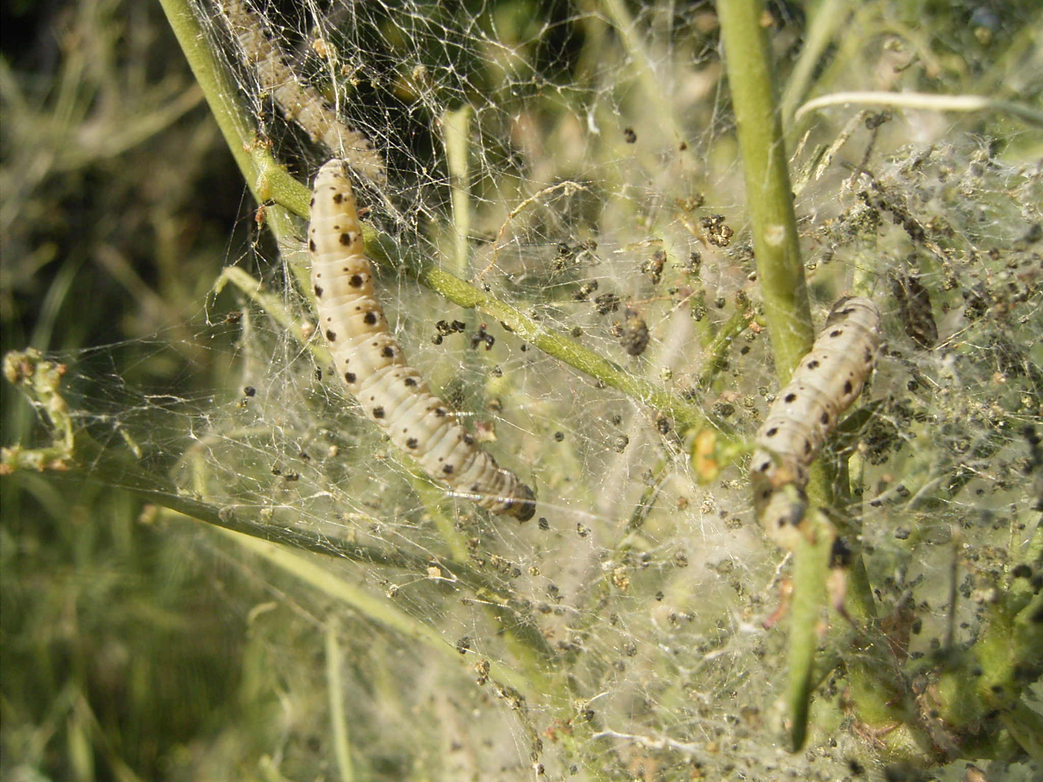 This photo shows one of the larvae of Yponomeuta cagnagellus